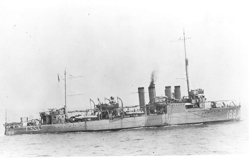 The U.S. Navy destroyer USS Goldsborough (DD-188) off Norfolk, Virginia (USA), in April 1921.